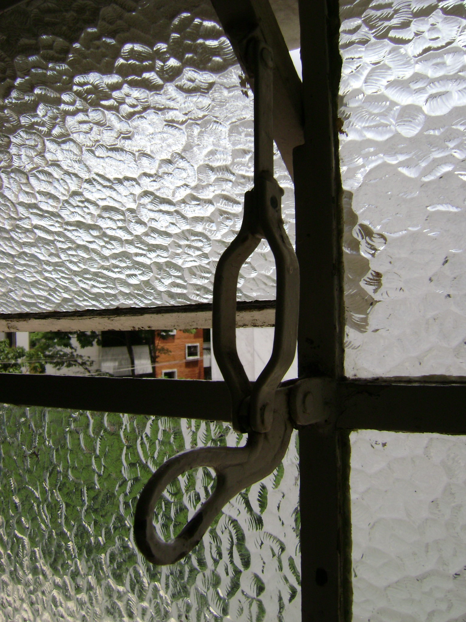 Básculo de janela